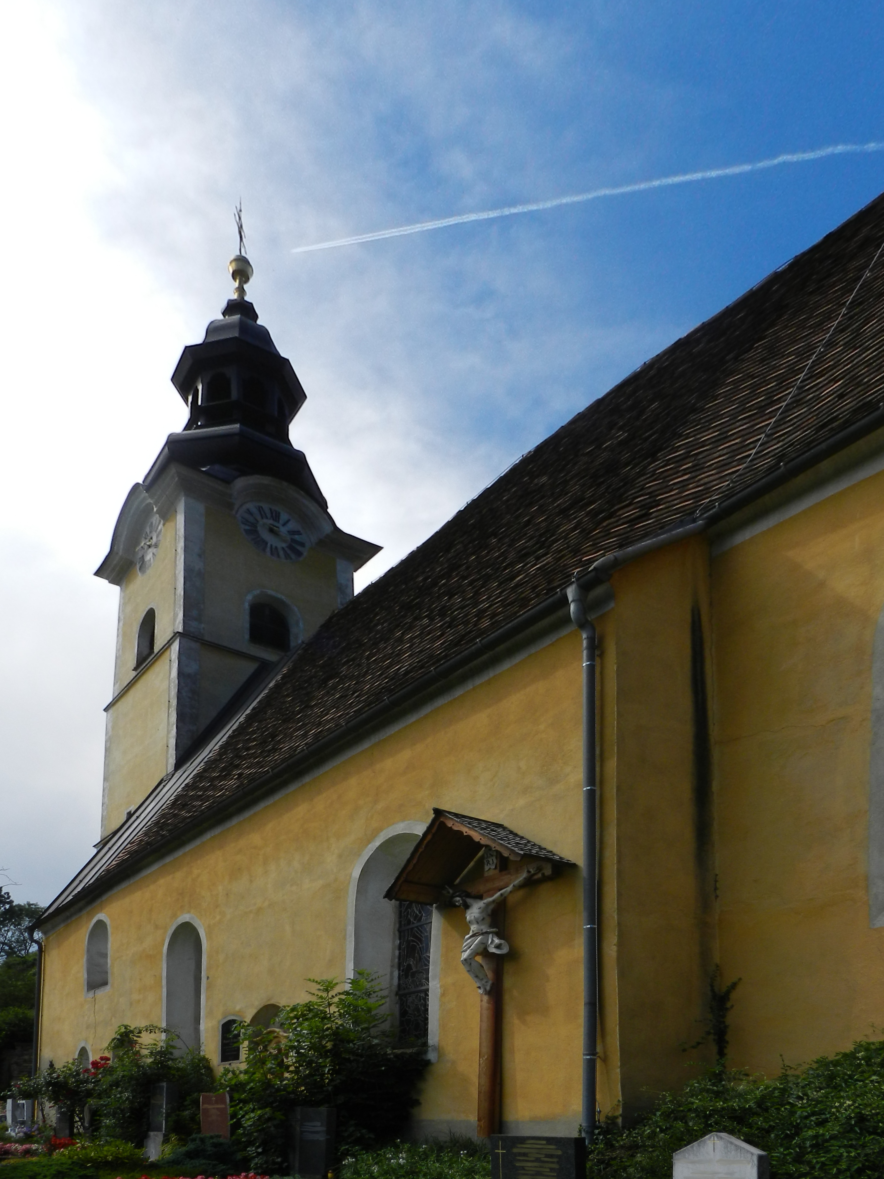 The church St. Dionysen in Oberaich, Austria, from the cemetary on the south.